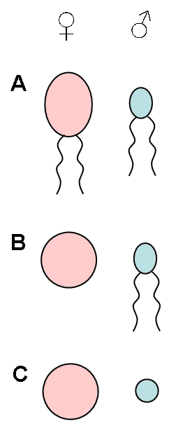 Different types of anisogamy: A) Anisogamy of motile gametes B) Oogamy (non-motile egg cell, motile sperm cell) C) Anisogamy of non-motile gametes (created with Powerpoint)